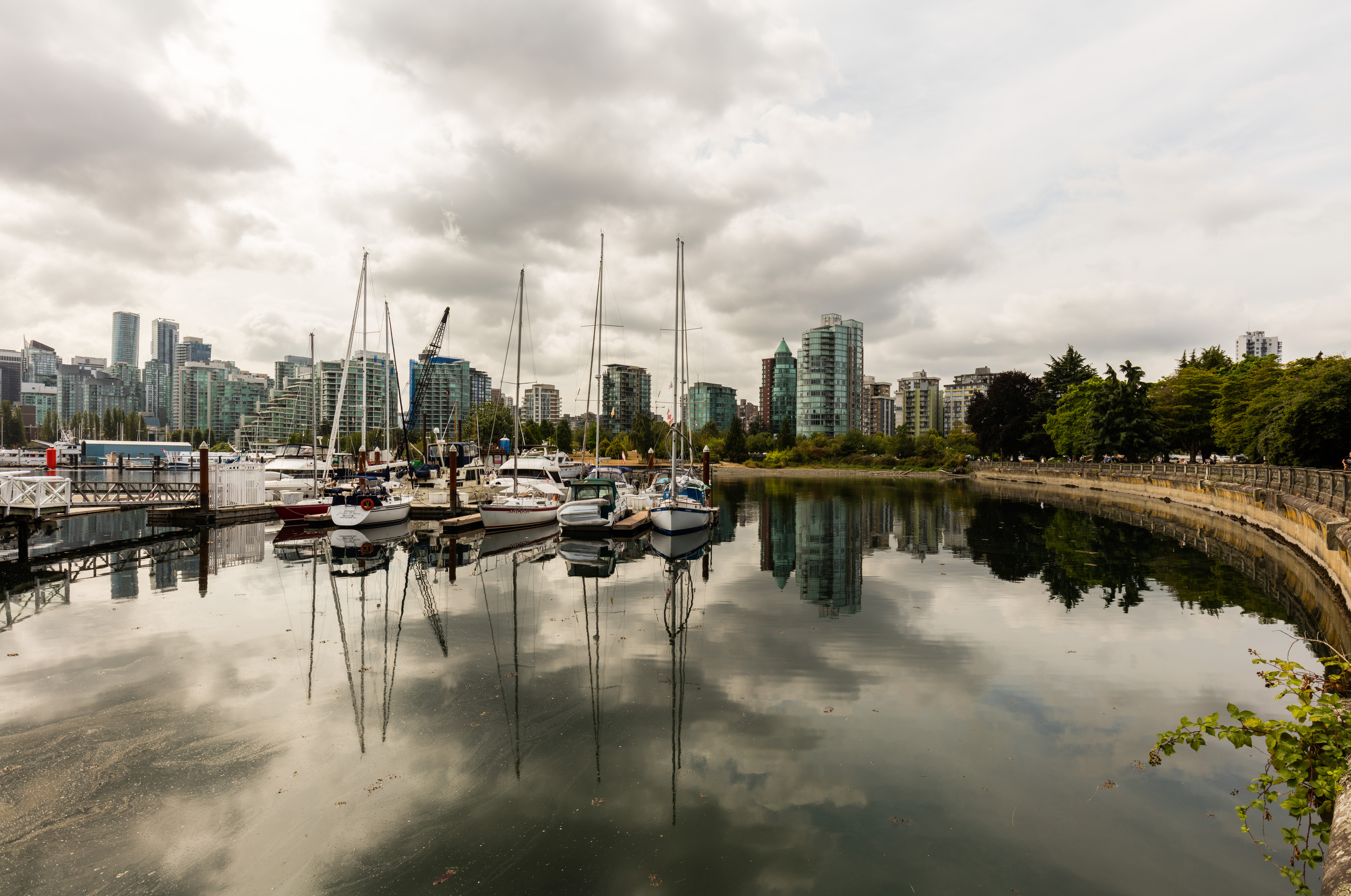 View of Vancouver from Stanley Park, Canada